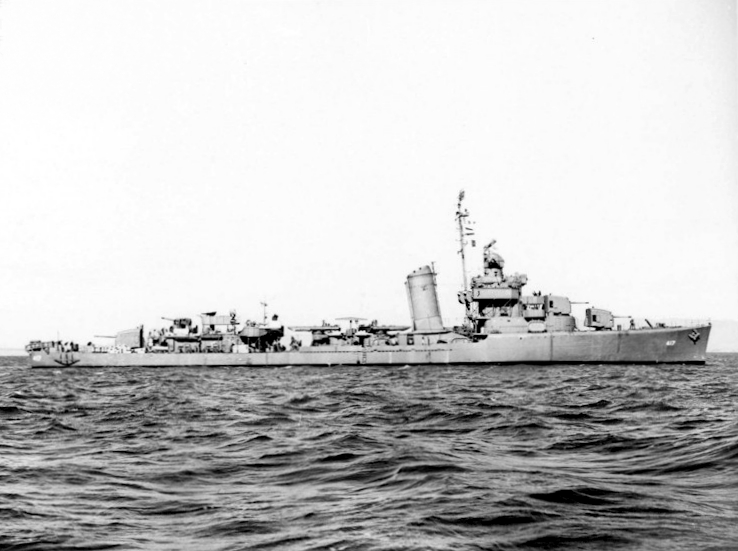 Broadside view of the U.S. Navy destroyer USS Morris (DD-417) off the Mare Island Naval Shipyard, Califronia (USA), on 22 October 1943. She was in overhaul at the yard between 6 September and 22 October 1943.